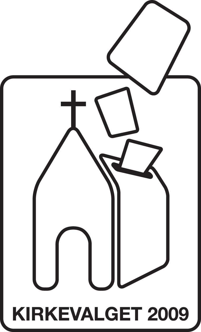 Church of Norway election 2009